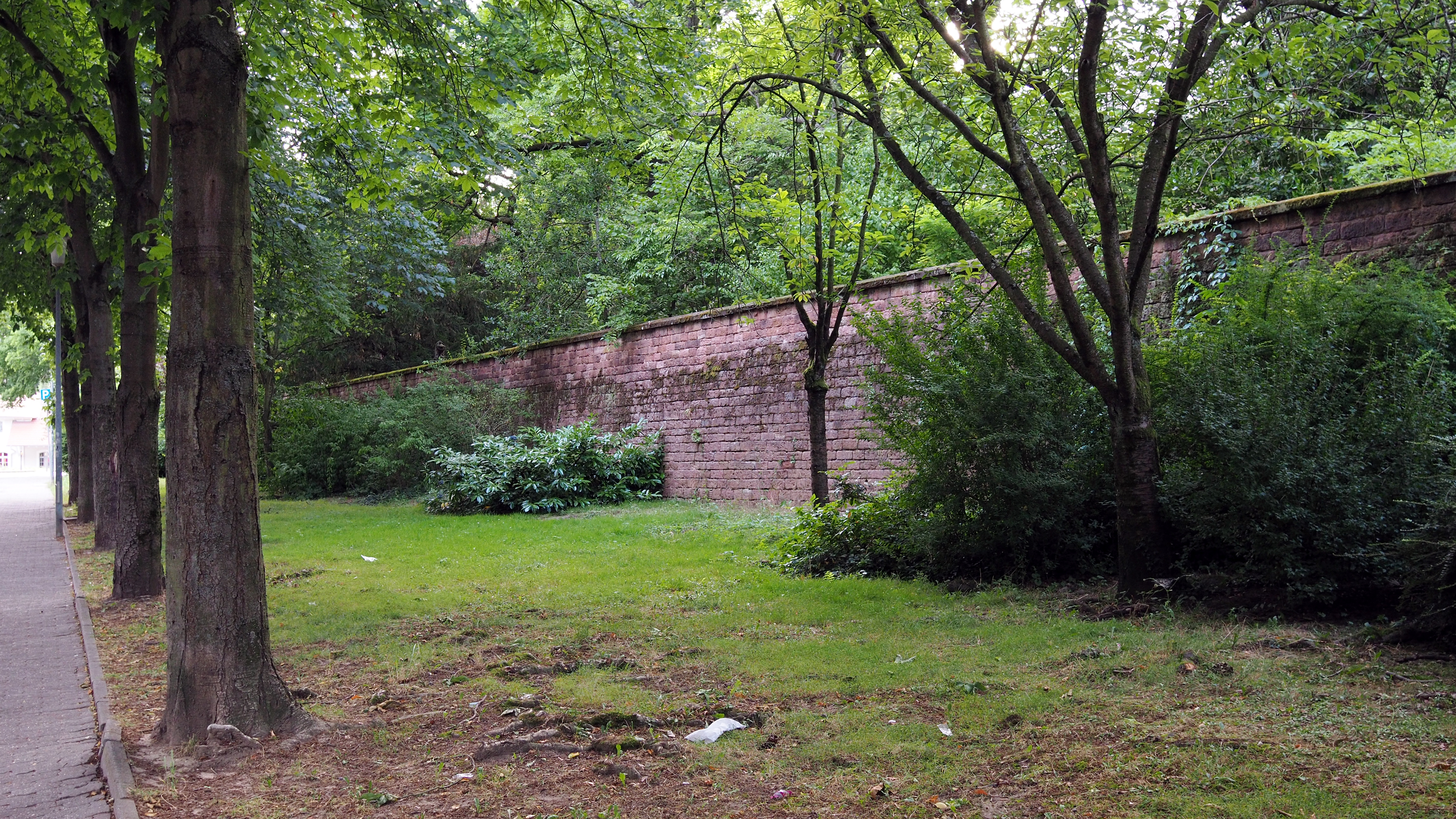 Adenauerpark (Speyer)